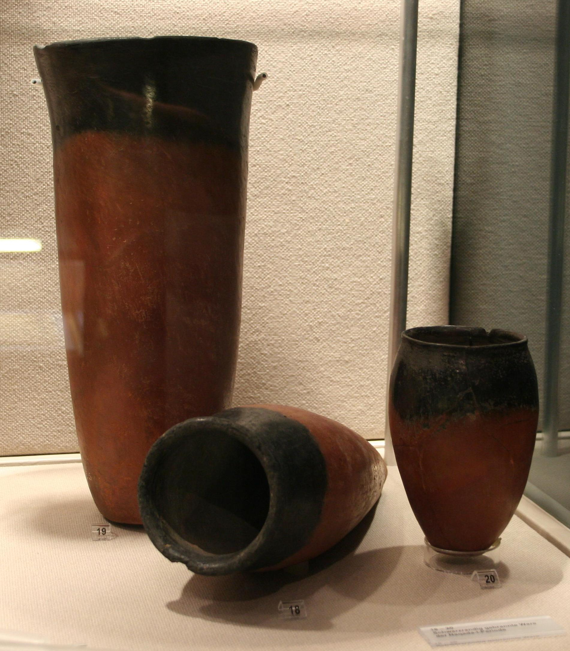 Vessels from Naqada I period (ca. 4000 BC)